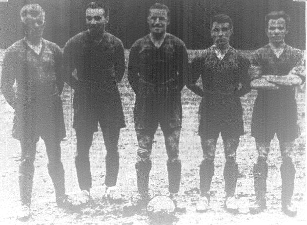 National Champion Stix forward line. Pictured are Alec McNab, captain and outside right; Billy Gonsalves, inside right; Werner Nilsen, center forward; Jimmy Roe, inside left, and Willie McLean, outside left.